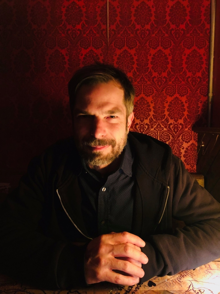 Photo of Contemporary Artist and Author, Joe Ovelman, 2019.